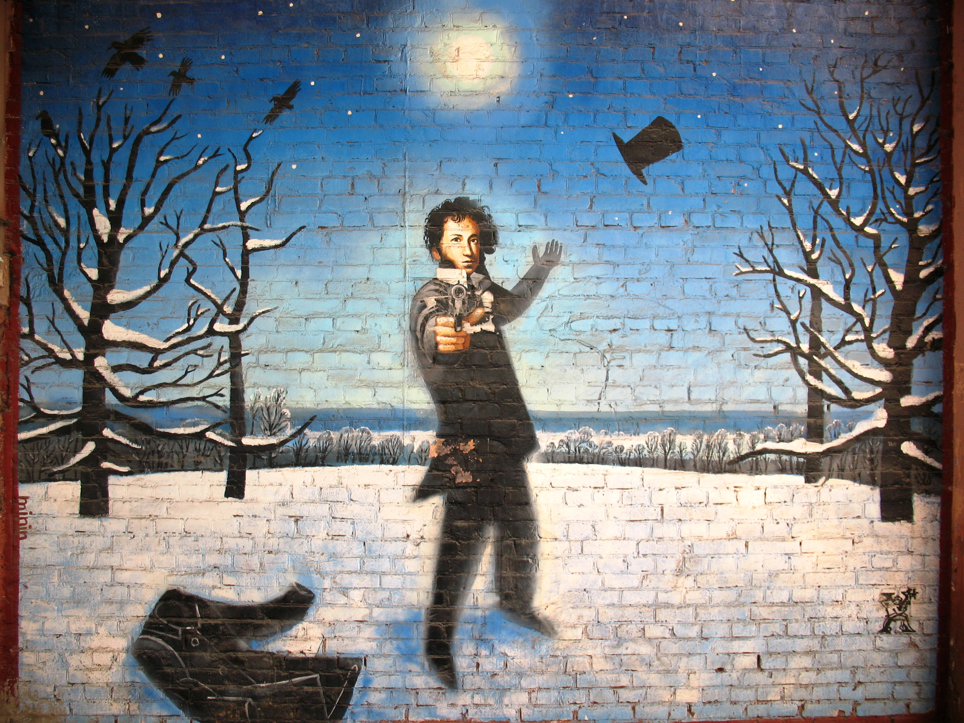 Aleksandr Pushkin duel on graffiti. Kharkov, 2008.